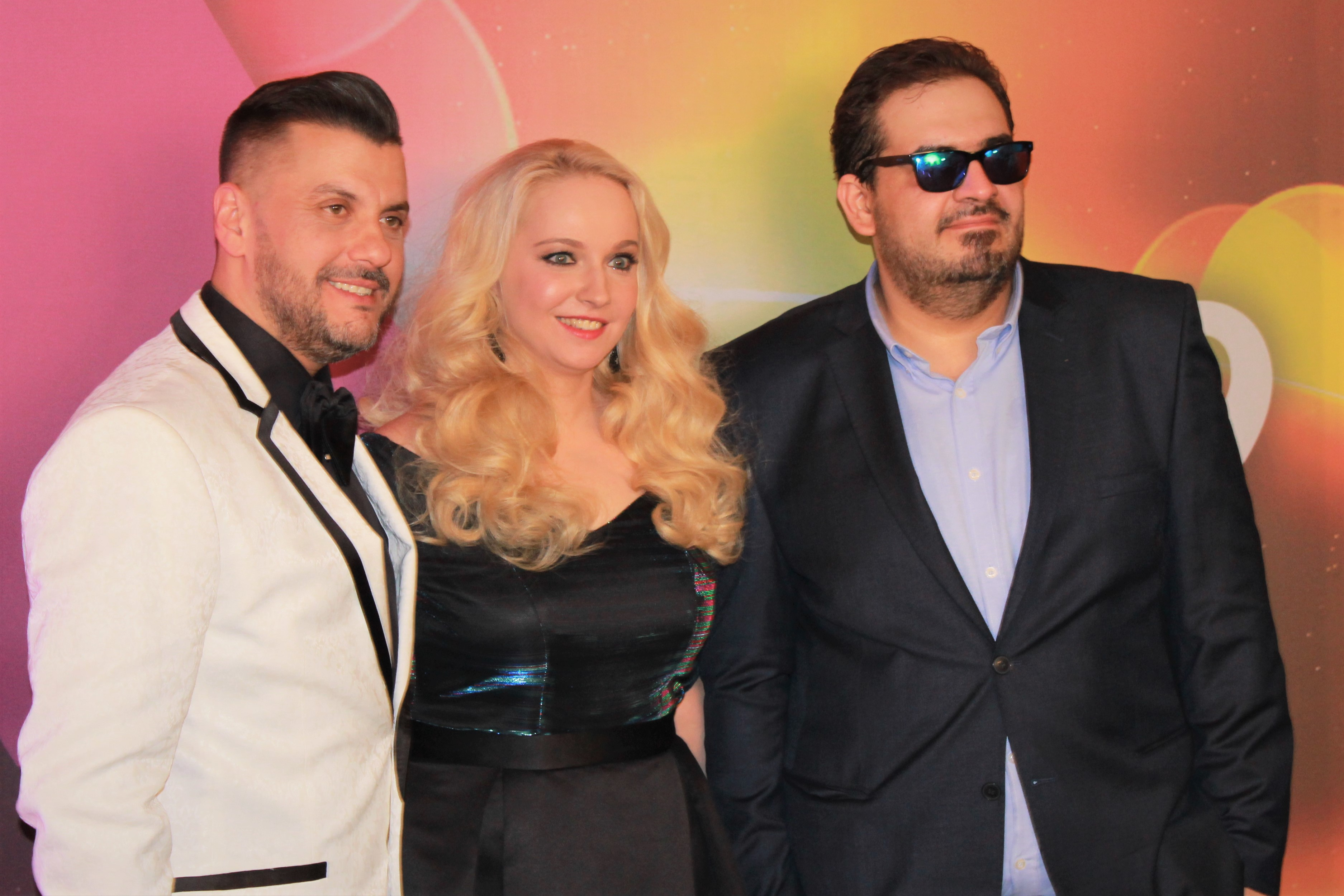 A Dal 2018 participants: Nikoletta Szőke - Attila Kökény - Róbert Szakcsi Lakatos